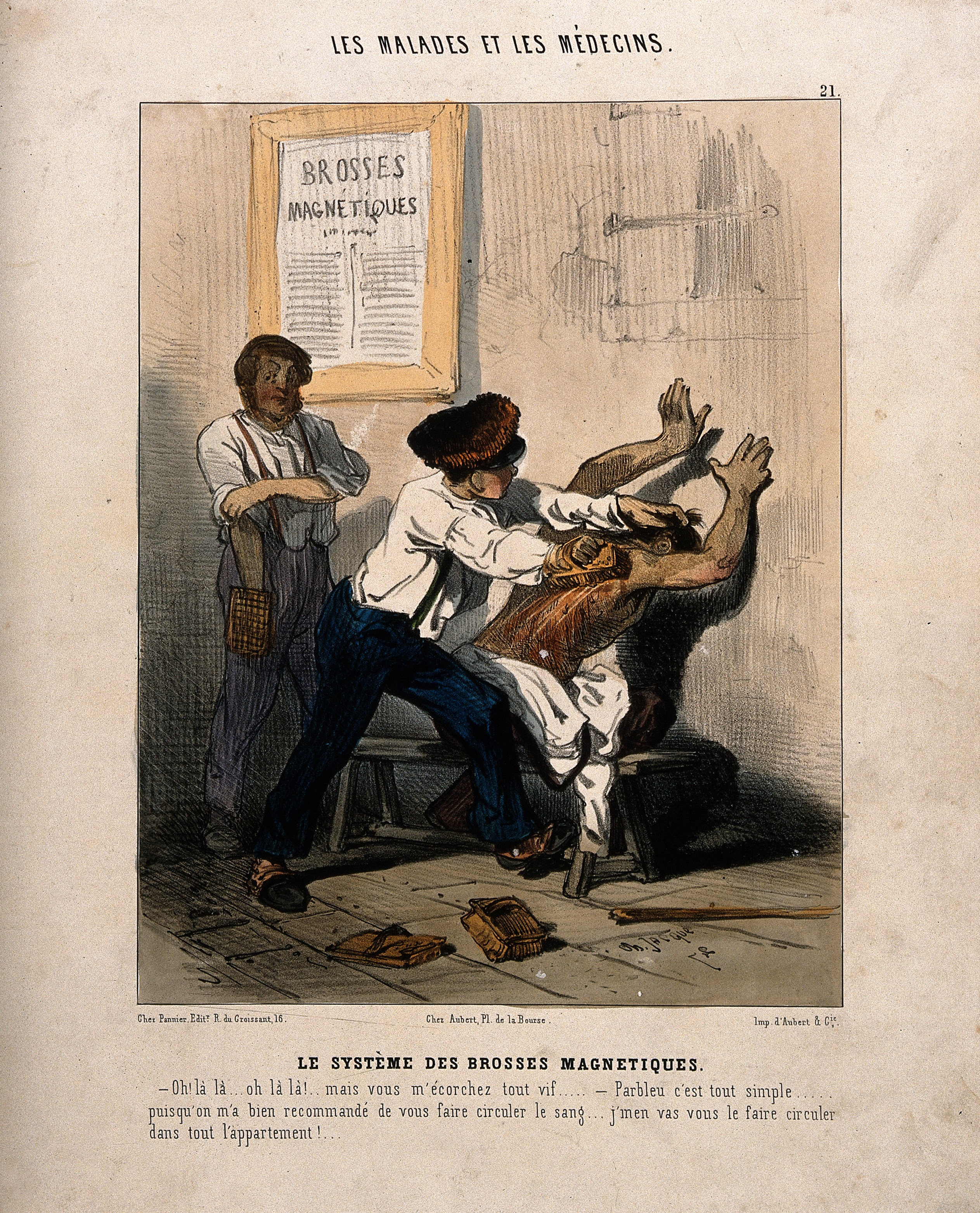 Topic-LCSH: Wounds and injuries. Pain. Tractors, Metallic. Magnetic healing. Blood -- Circulation. Physical therapy. Manipulation (Therapeutics) Metals -- Therapeutic use. Blood. Genre/Technique: Caricatures Lithographs.